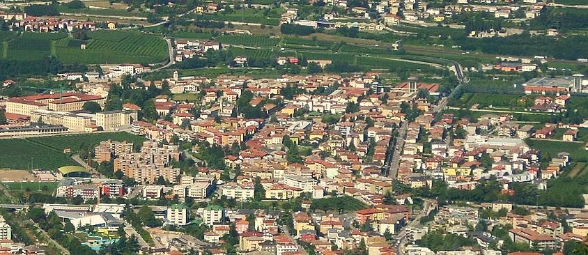 View of Borgo Sacco, Rovereto, Province of Trento - Italy